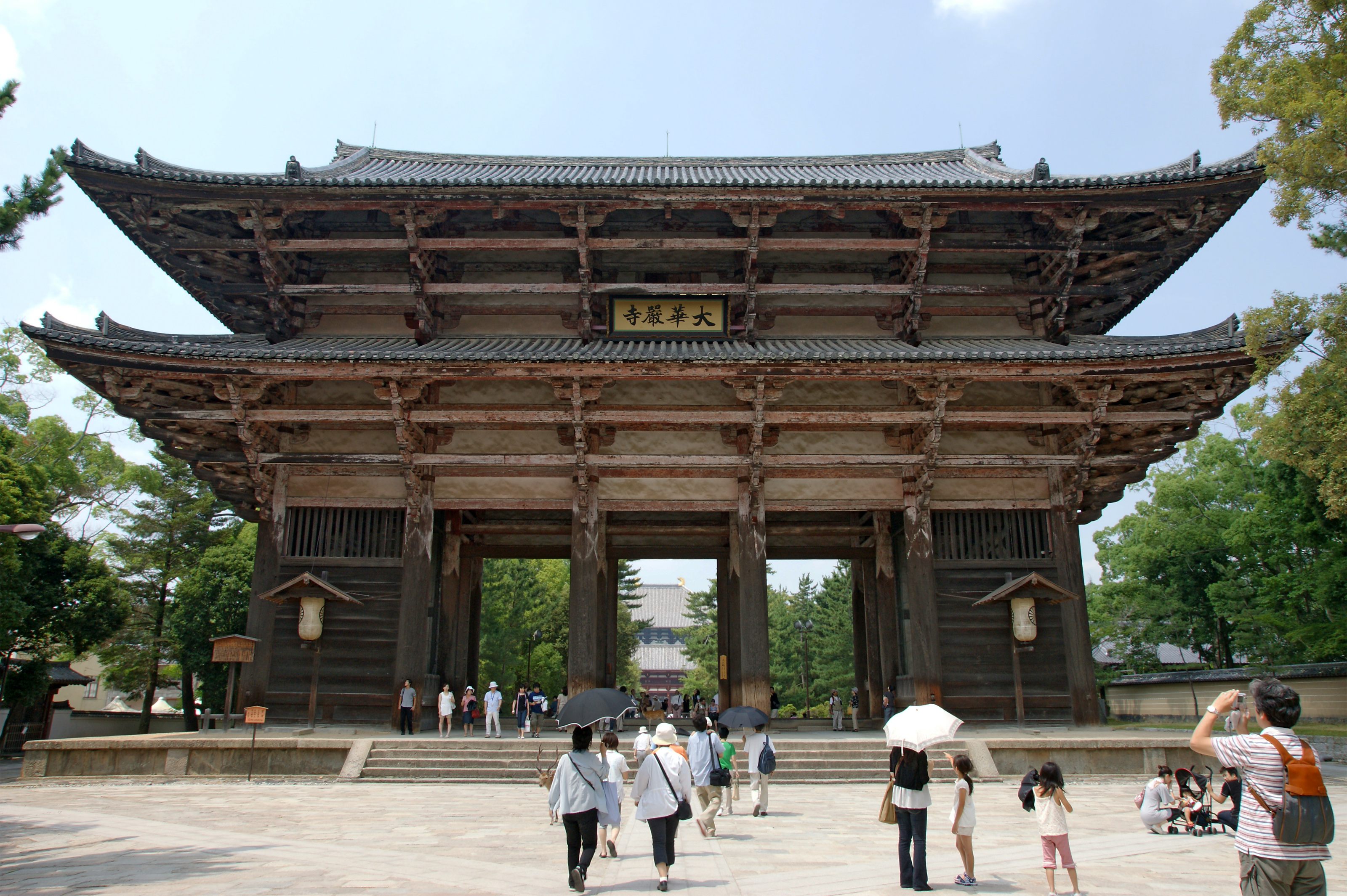 Todaiji in Nara, Nara prefecture, Japan